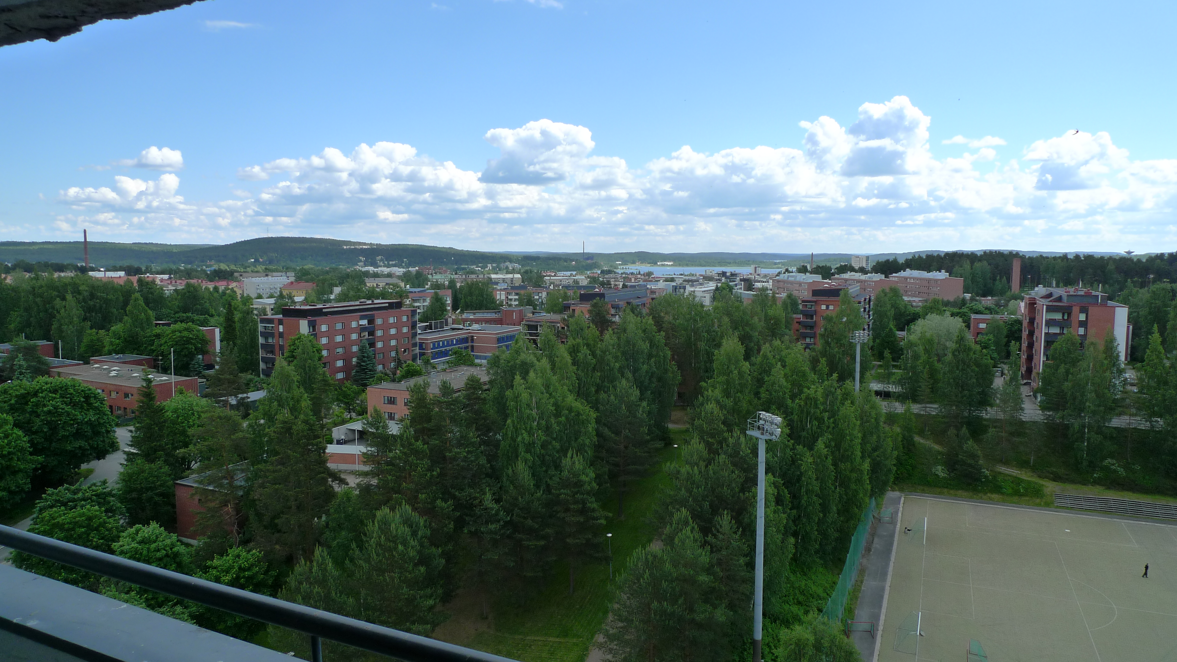 A view over Jyväskylä from the top floors of Viitatorni - the residental building designed by architect Alvar Aalto.